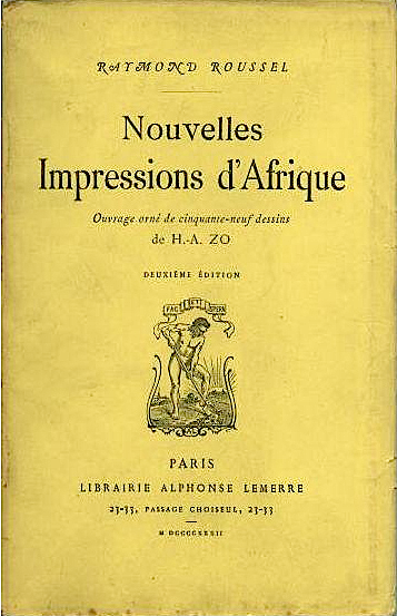 Cover of Nouvelles Impressions d'Afrique by Raymond Roussel, a novel in verses published in Paris in 1932 — Henri-Achille Zo is mentionned as designer of 59 drawings. The deuxième édition (second edition) editor's note is fictitious.